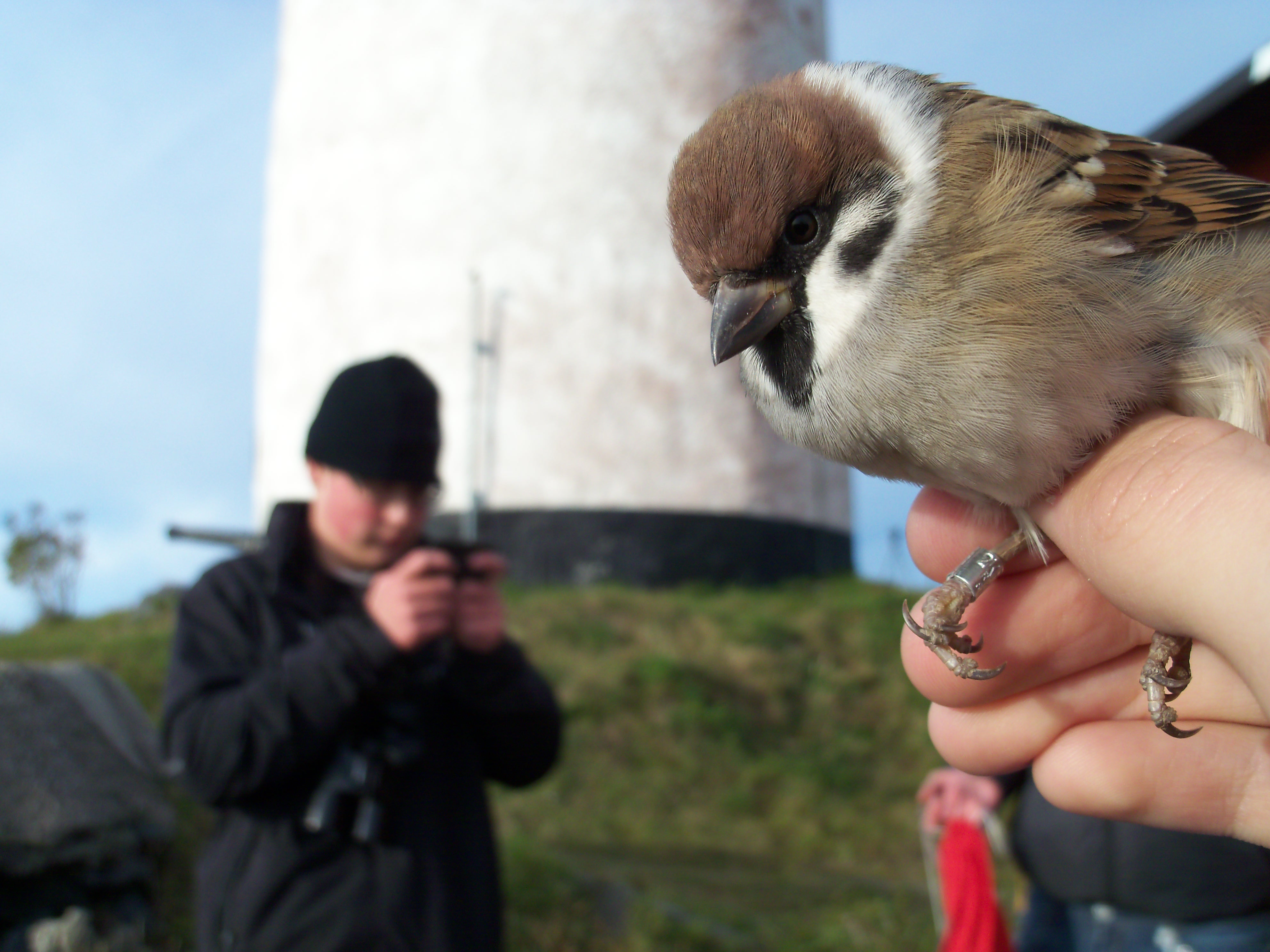 A Eurasian Tree Sparrow (Passer montanus) ringed at Landsort Lighthouse on the south cape of the island Öja (Landsort), south of Nynäshamn in Södermanland in Stockholm County in Sweden. Landsort Bird Observatory is responsible for the ringing.